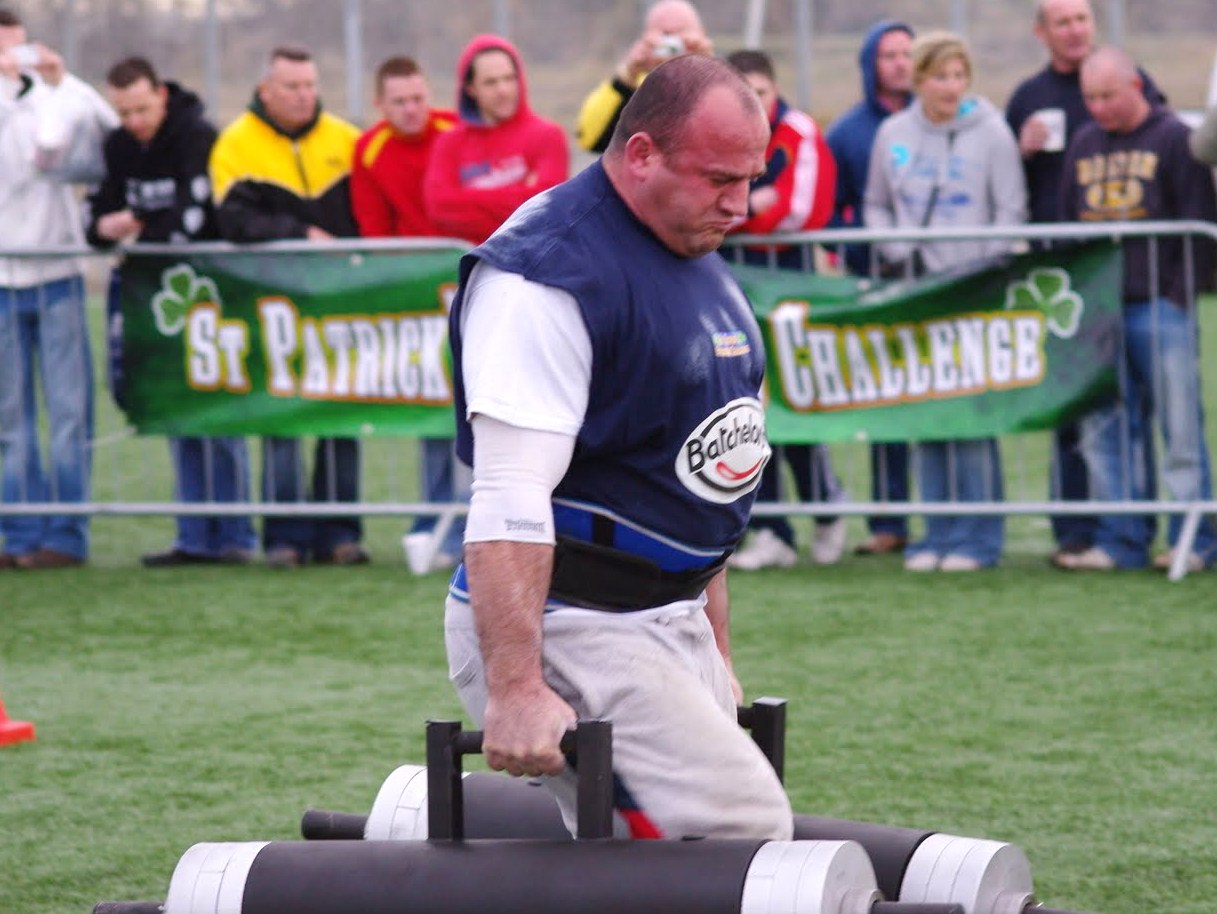 Jimmy Marku - a strength athlete from England at the Farmer's Walk.